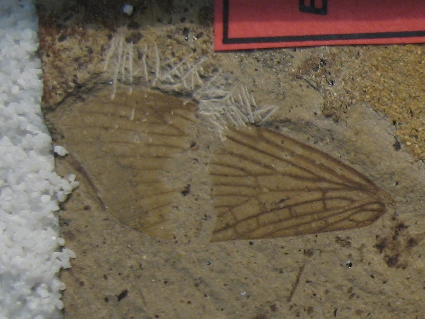 Eorpa elverumi holotype specimen, SR UI 08-07-07 A, In the collections of the Stonerose Interpretive Center collections. Republic WA